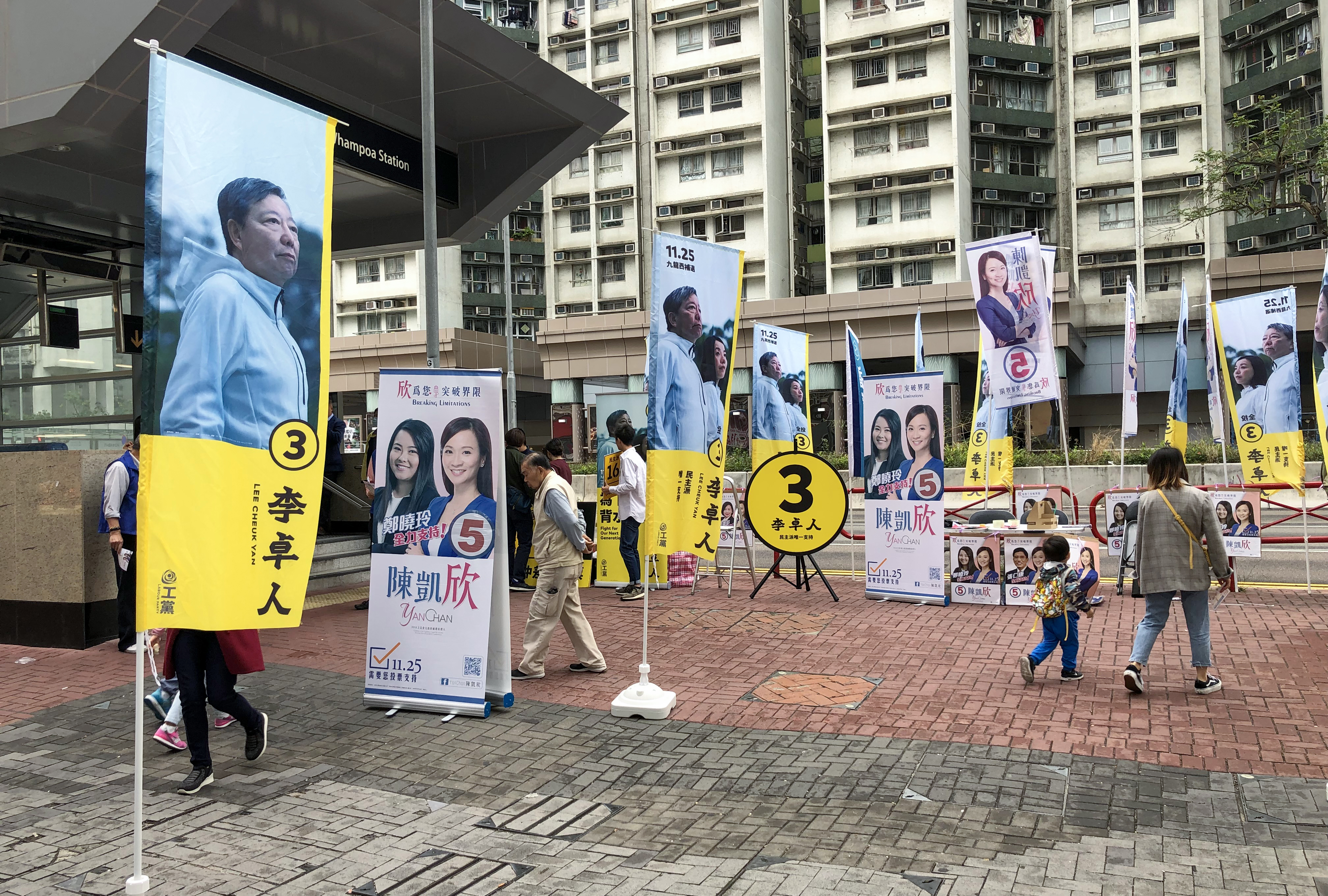 Banners of Lee Cheuk-yan (Candidate No.3) and Chan Hoi-yan (Candidate No.5) can be seen nearly everywhere in Hung Hom.